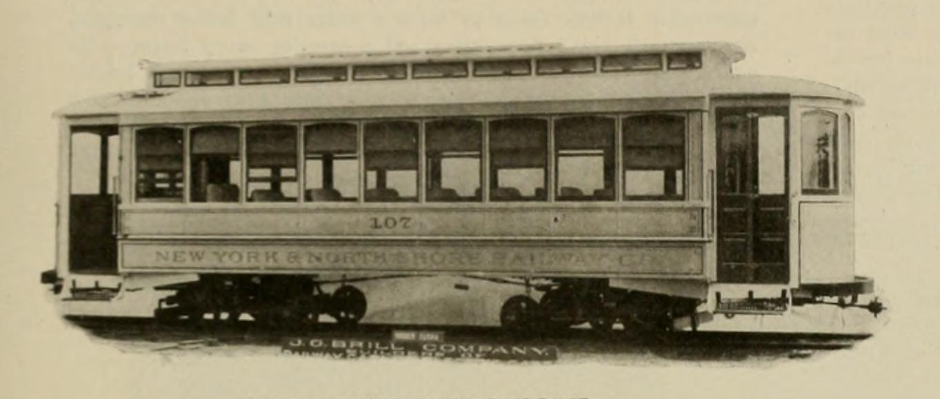 Title: The street railway review Year: 1891 (1890s) Authors: American Street Railway Association Street Railway Accountants' Association of America American Railway, Mechanical, and Electrical Association Subjects: Street-railroads Publisher: Chicago : Street Railway Review Pub. Co Text Appearing Before Image: SEMI-CONVERTIBLE CARS FOR A GREATER NEW YORK SUBURB The accompanying illustration shows one of a lot of cars now being received by the New York & North Shore Railway Co. from the J. G. Brill Co. of Philadelphia. This type of car, known as the Brill patented semi-convertible, has become so widely and favorably known as a suburban and interurban all year round car that it is not surprising to learn that nearly all the box cars in course action at the Brill company’s shops are of that Image caption: Brill car for suburban line Text Appearing After Image: style. It is a type which appeals to the public no less than the operators in that the car is always prepared to meet every change in the weather without going to the barn. It is puzzling, even to an expert, to understand how large straight-rindows arc contained in the roof when not in use, without changing the appearance, inside or out, from that of a standard type car. Another feature that is hard to understand is the ease with which the windows arc operated; their action is partly automatic, but so simple that it is next to impossible to get them out of order. The length of these cars over the crown-pieces is 34 ft. 9 in. width over the sills, 7 ft. 9¾ in. and 8 ft. at belt. The interiors are1 in natural cherry with birch ceilings. Spring cane reversible-back seats for 36 persons are placed transversely.